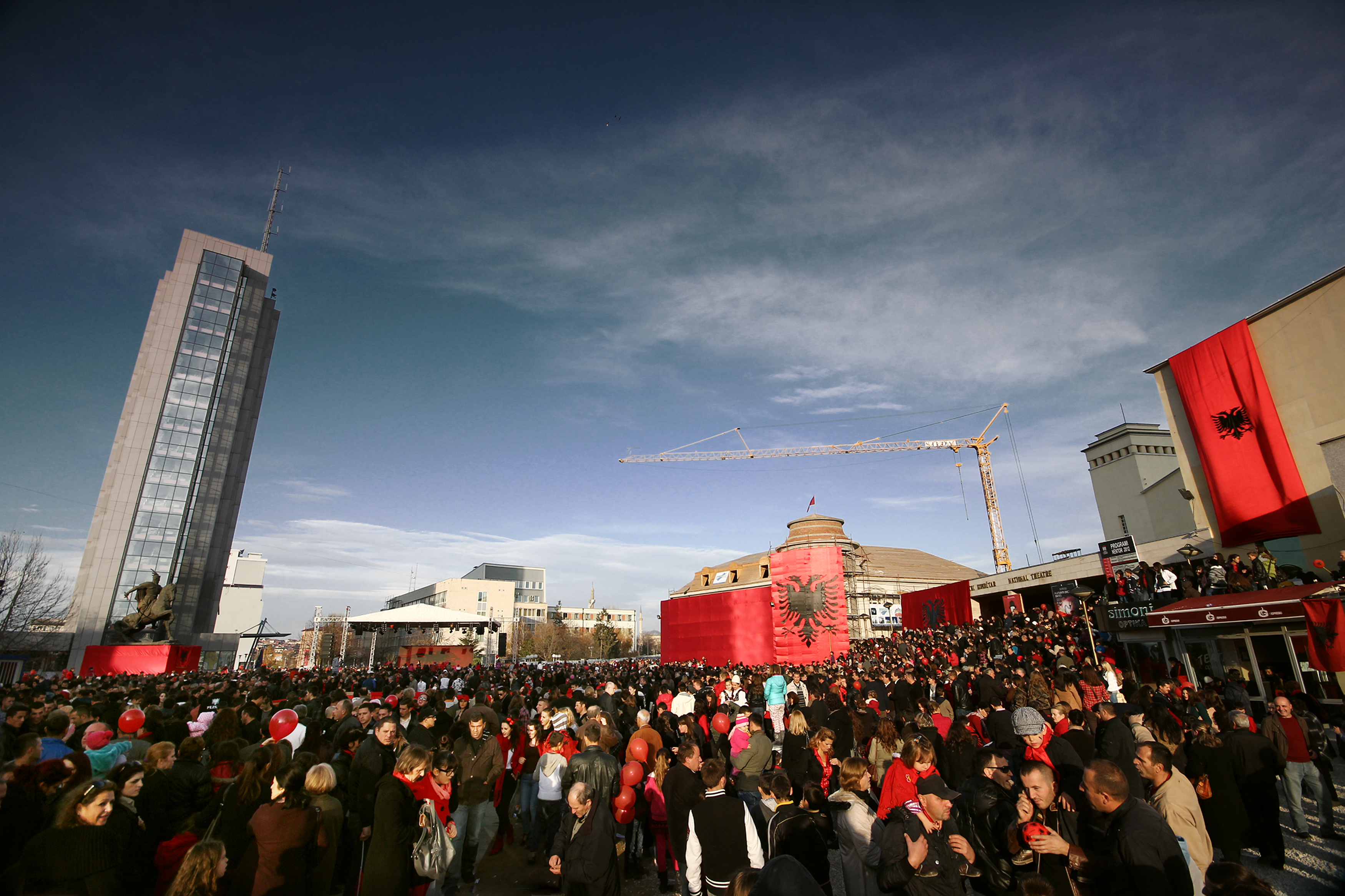 100 years of Albanian Independence - Prishtine